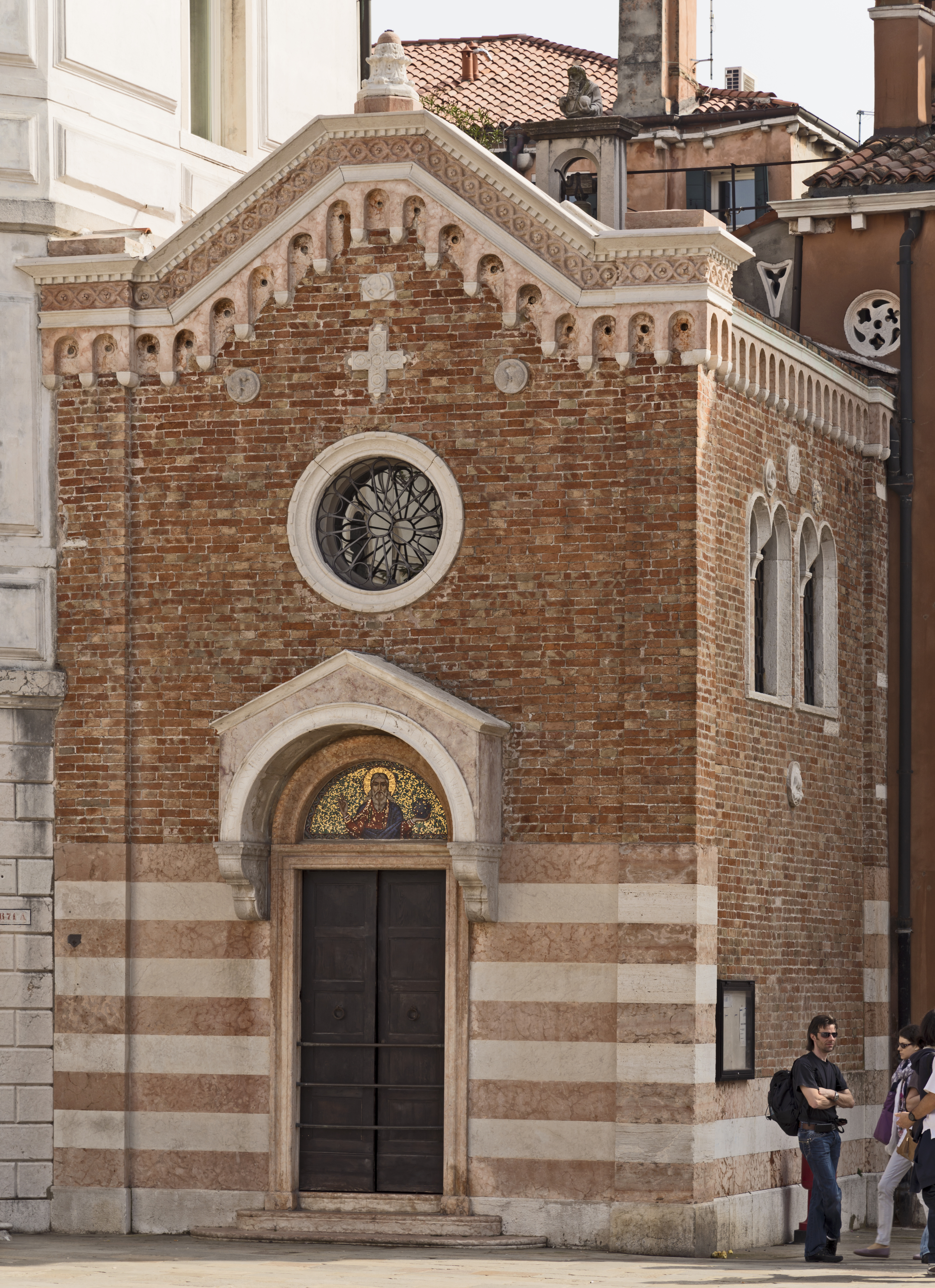 Chapel San Vio, in Venice.